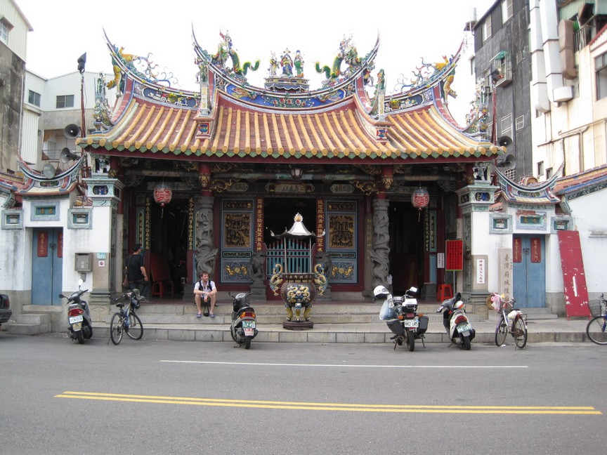 The front of Taiwan Fu City God Temple(臺灣府城隍廟).中文（台灣）: 臺灣府城隍廟的正面